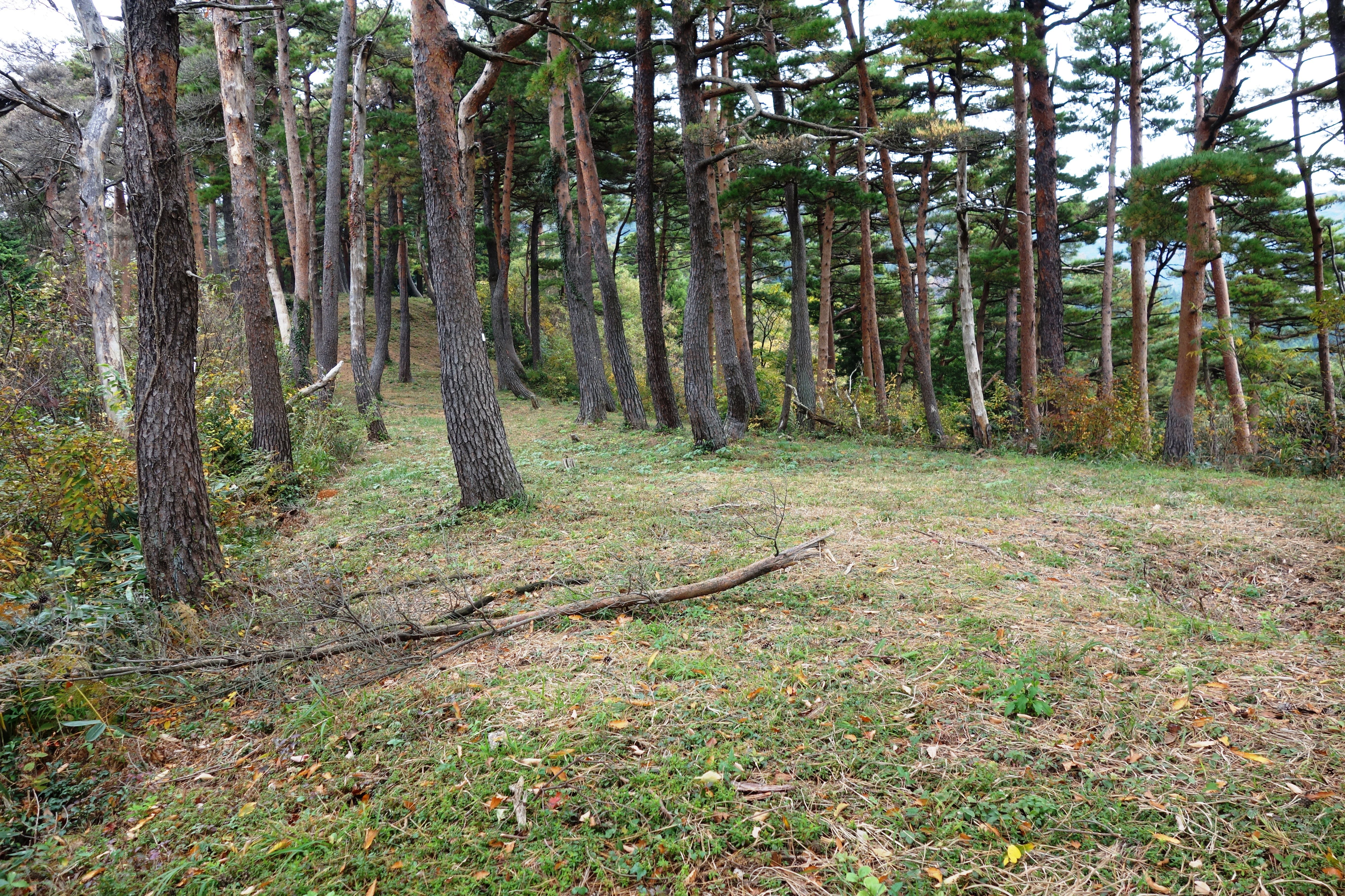 Kofun No.1 at Rokuroseyama, Sakai-shi, Fukui Pref., Japan